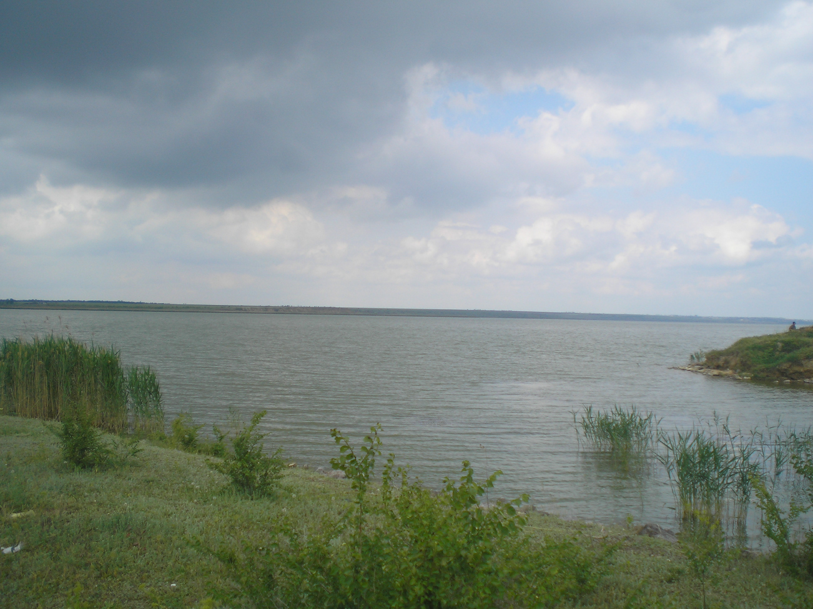 Lake Kitay, SW Ukraine